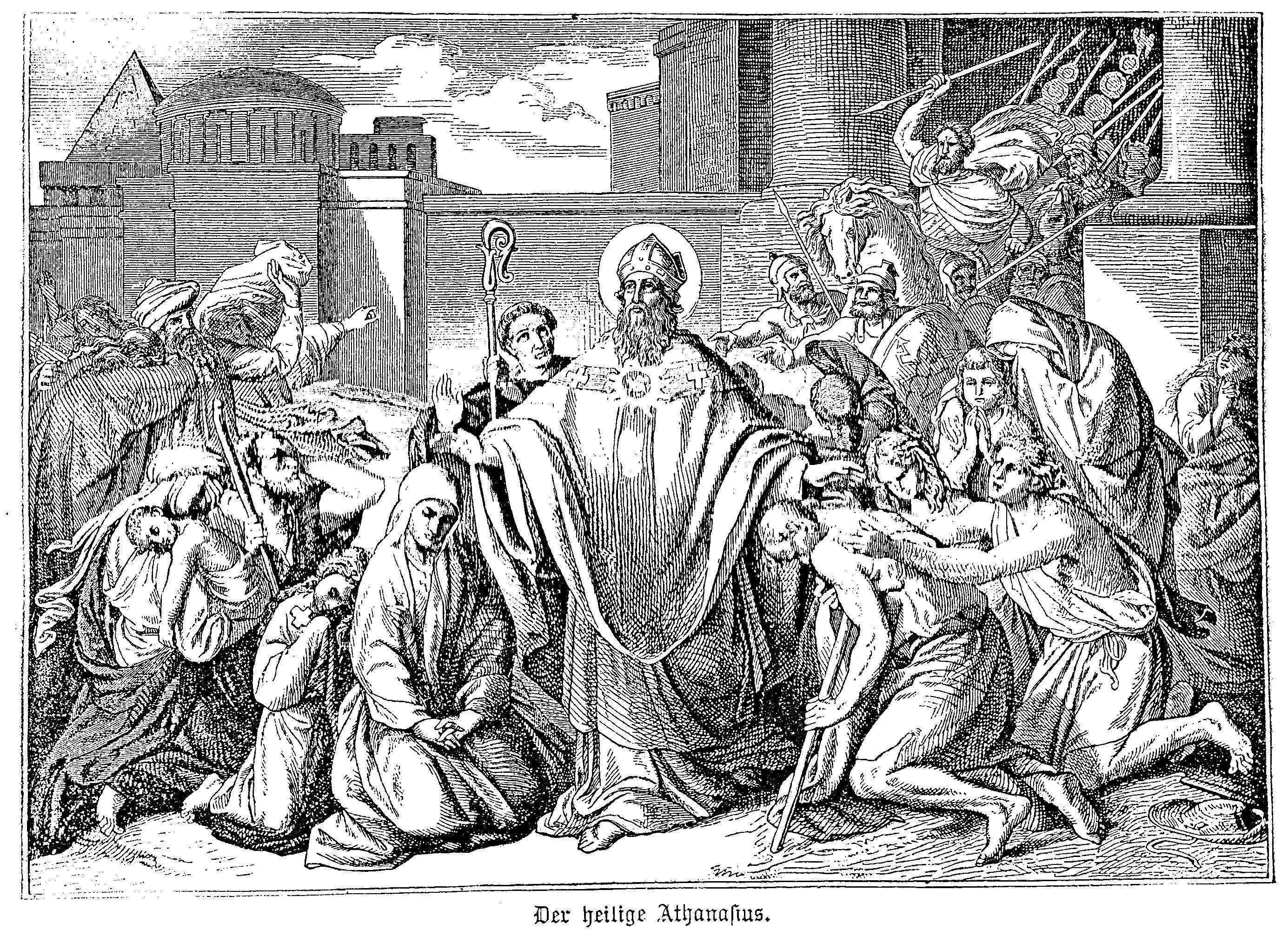 Saint Athanasius was persecuted